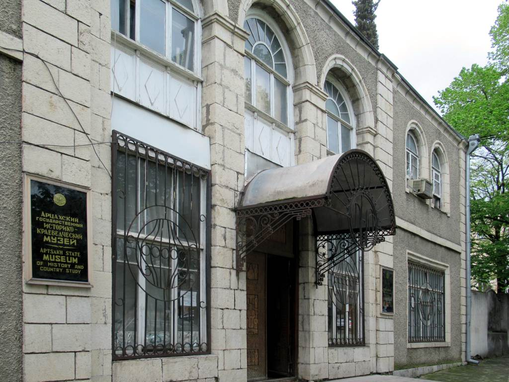 The Artsakh State Museum in Stepanakert showcases the history and geography of the Republic of Nagorno Karabakh.